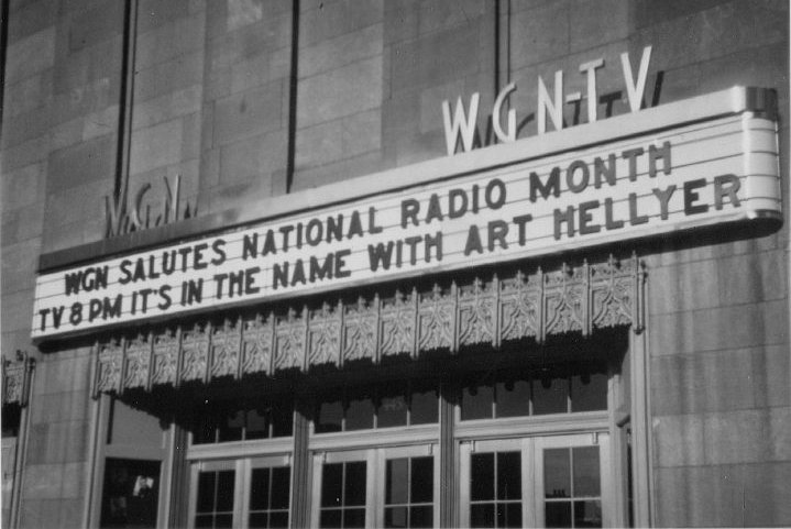 Art Hellyer host of "It's In the Name" TV game show on WGN-TV Chicago in 1958. Co-hosts were Carmelita Pope and Professor Robinson of Northwestern University